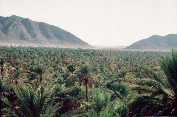 Figuig Oases, with extensive date palm groves, Morocco.